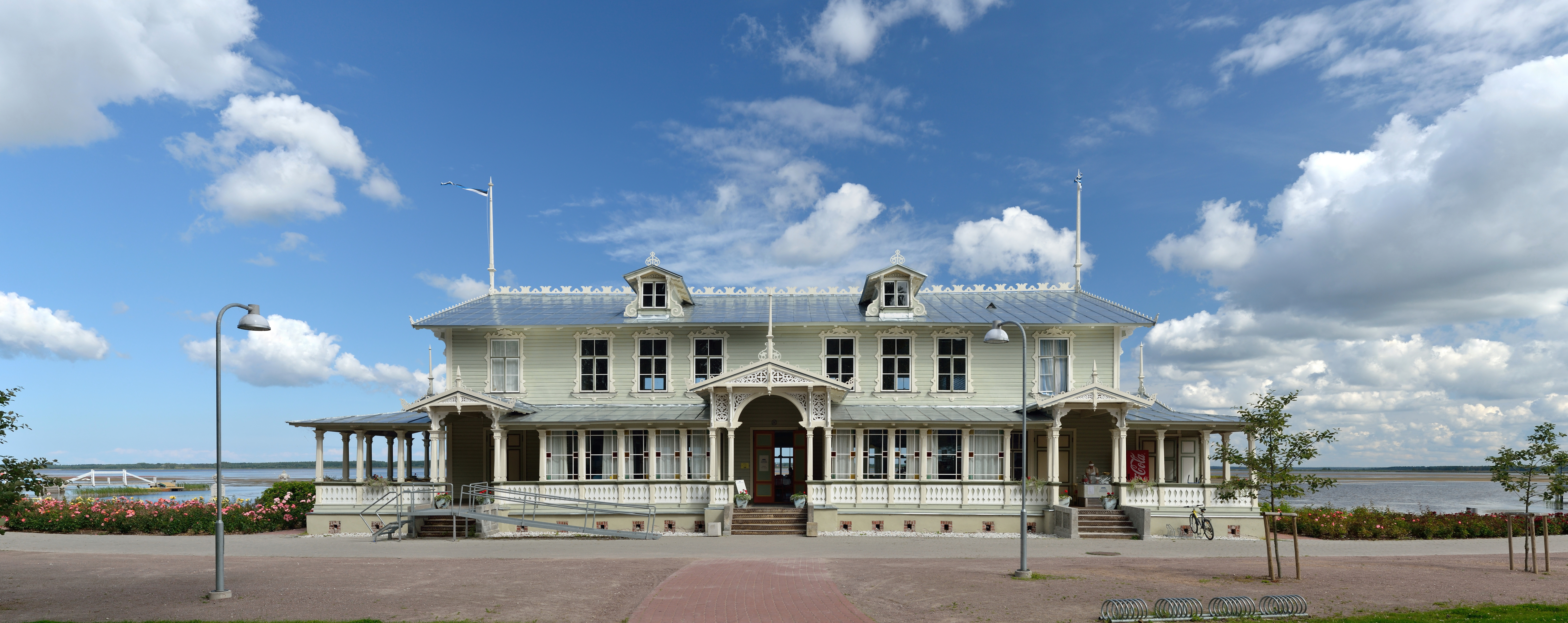 Haapsalu resort hall, built in the end of 19. century. It was one of the most important buildings in Haapsalu in first half of 20. century (it had a concert hall, a restaurant, a library and a hotel.)